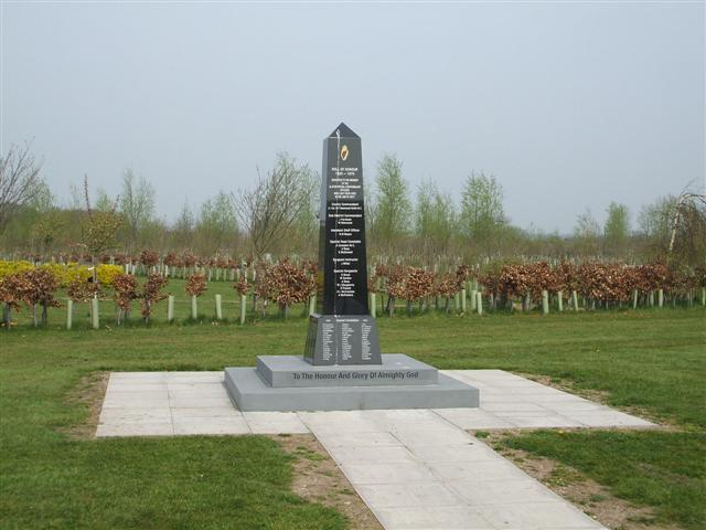 National Arboretum USC monument The inscription from the top reads, "Roll of Honour 1920-1970. Dedicated to the memory of the Ulster Special Constabulary Officers who lost their lives in the line of duty" and proceeds to list their names.